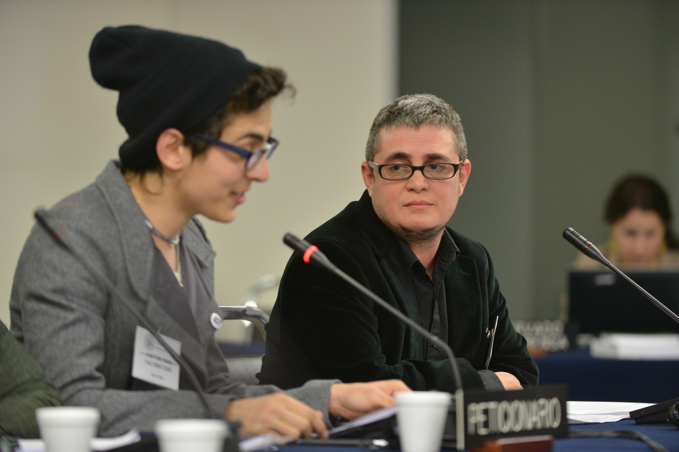 CIDH 147 Periodo ordinarioSituación de derechos humanos de las personas intersex en las AméricasMarch 15, 2013 Washington DCphoto by Eddie ArrossiMauro Cabral / Natasha Jiménez / Advocates for Informed Choice / Núcleo de Pesquisa em Sexualidade e Relações de Gênero, Universidade Federal do Rio Grande do Sul / Consórcio Latino Americano de Trabalho sobre Intersexualidade